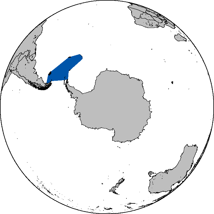 This map shows the approximate area of the Scotia Sea, based on the description in its article. I created it using Image:Blankmap-ao-090S-south pole.png and GraphicConverter.